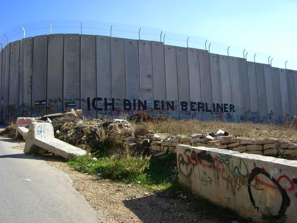 On the road to Bethlehem, a very symbolic tag on the wall made on the Palestinian side ("Ich bin ein Berliner")